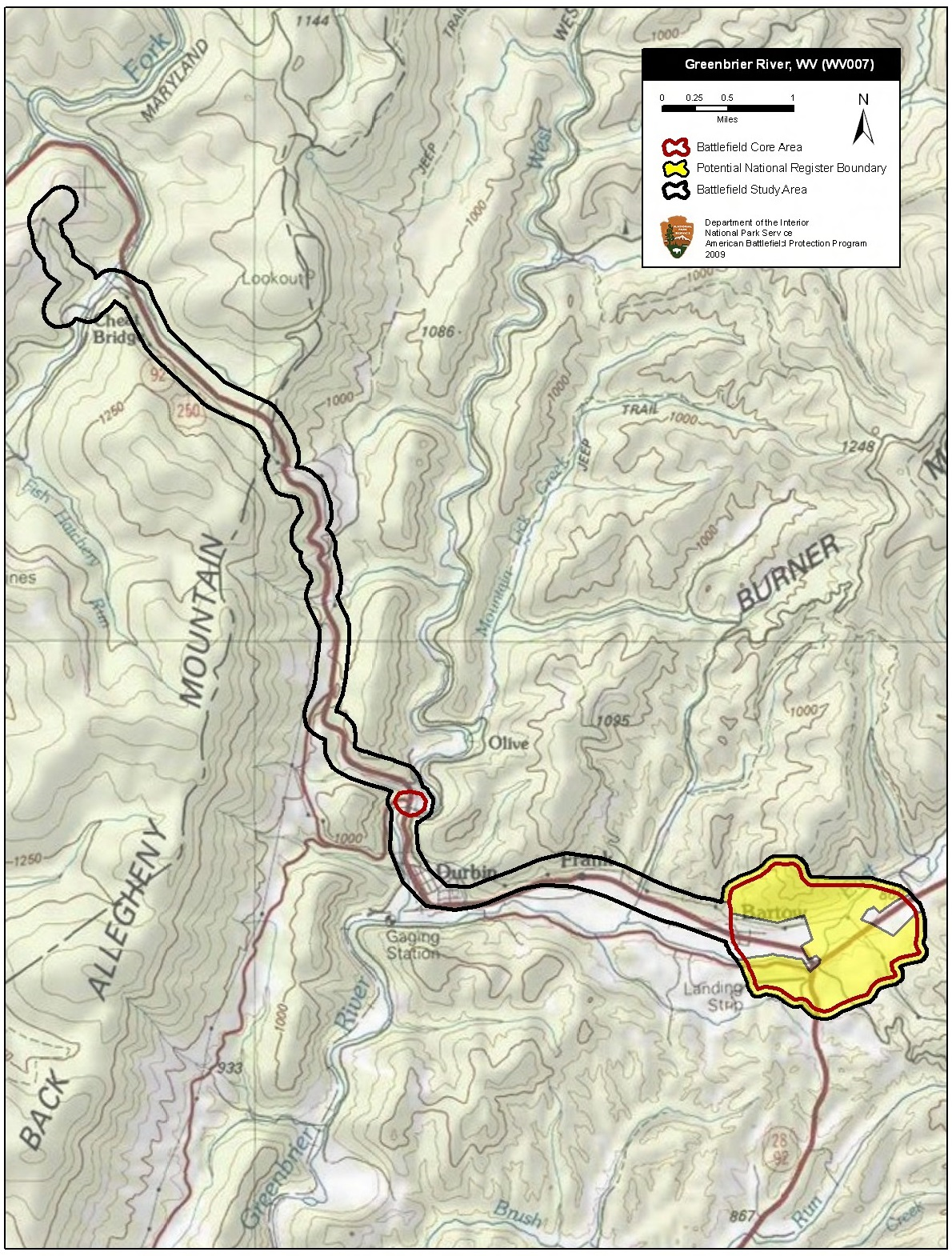 Map of battlefield core and study areas. The significantly revised Study Area includes the Federal approach route from Cheat Mountain, the addition of a Core Area representing the skirmish at West Fork Bridge, and setting buffers around both Core Areas.